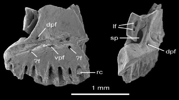 The Natural History Museum, London, f. k. a. British Museum of Natural History (BMNH), R.16336, the holotype of the albanerpetontid lissamphibian tetrapod species Anoualerpeton priscus GARDNER & al. 2003, an isolated “incomplete left premaxilla lacking dorsal end of pars dorsalis, lateral end of pars dentalis, and most of pars palatinum, with preserved tooth row containing nine broken tooth bases and empty tooth slots, one of which preserves an in situ replacement crown”, in lingual (left) und laterolingual (right) views, from the Middle Jurassic of the Oxford area, England; dpf = dorsal opening of palatal foramen, lf = lateral foramen, rc = replacement crown, sp = suprapalatal pit, vpf = ventral opening of palatal foramen, ?f = unknown foramen.